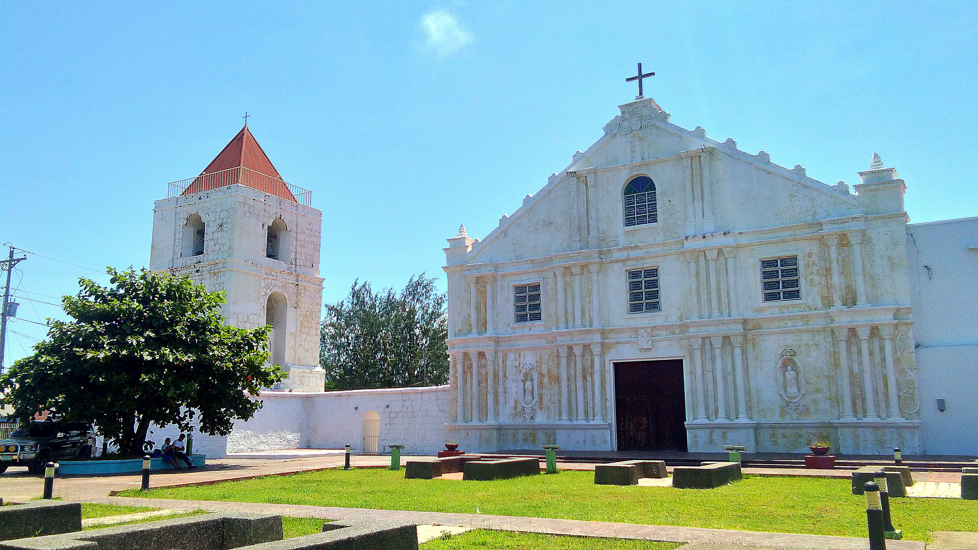 The Immaculate Conception Church of Guiuan in 2019, restored by the National Museum